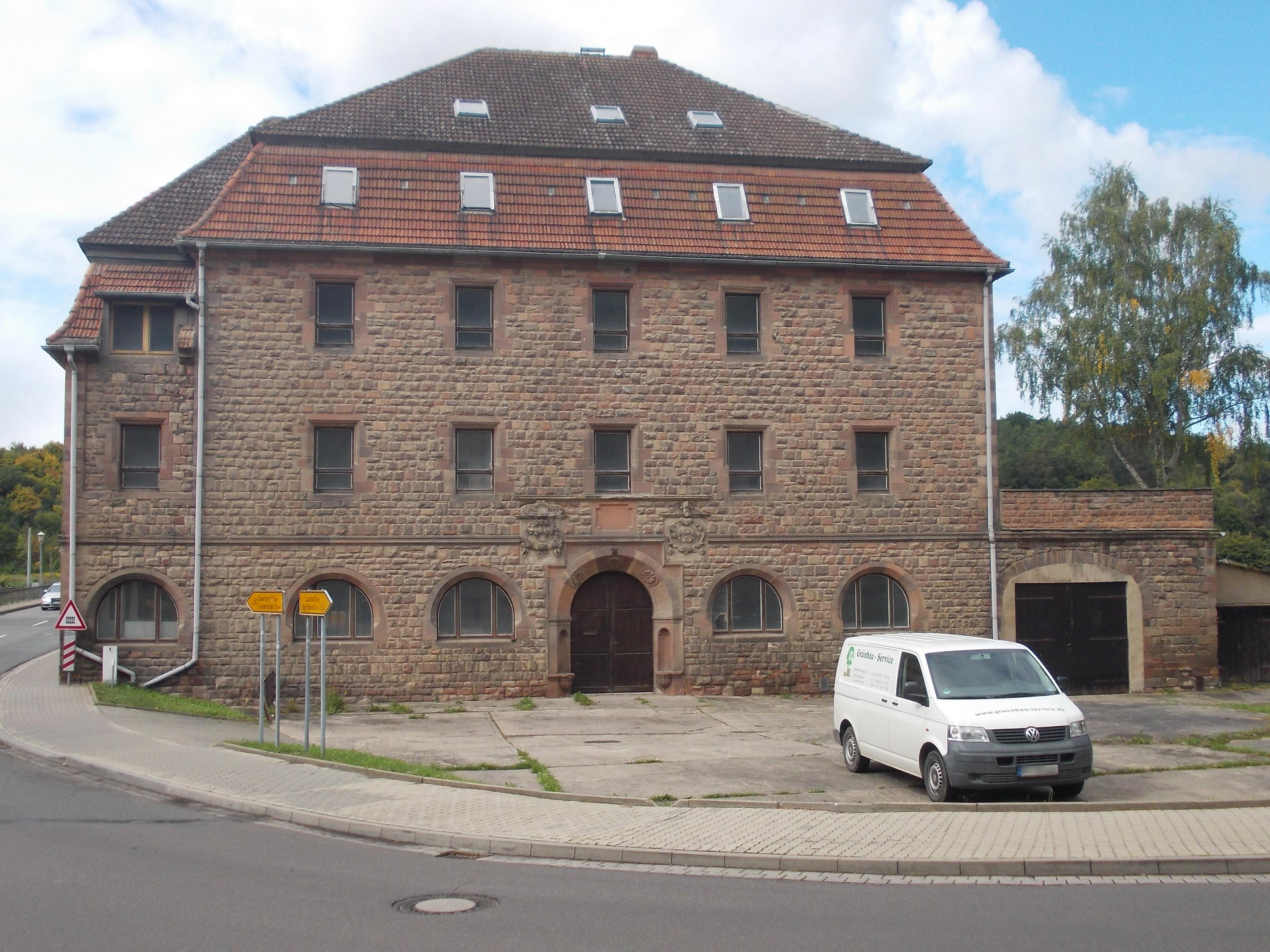 Castle MIll in Nebra (district: Burgenlandkreis, Saxony-Anhalt)